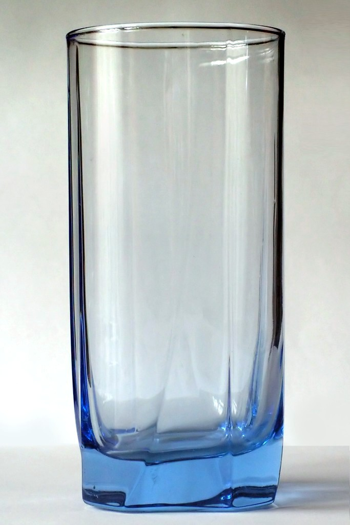 Empty glass